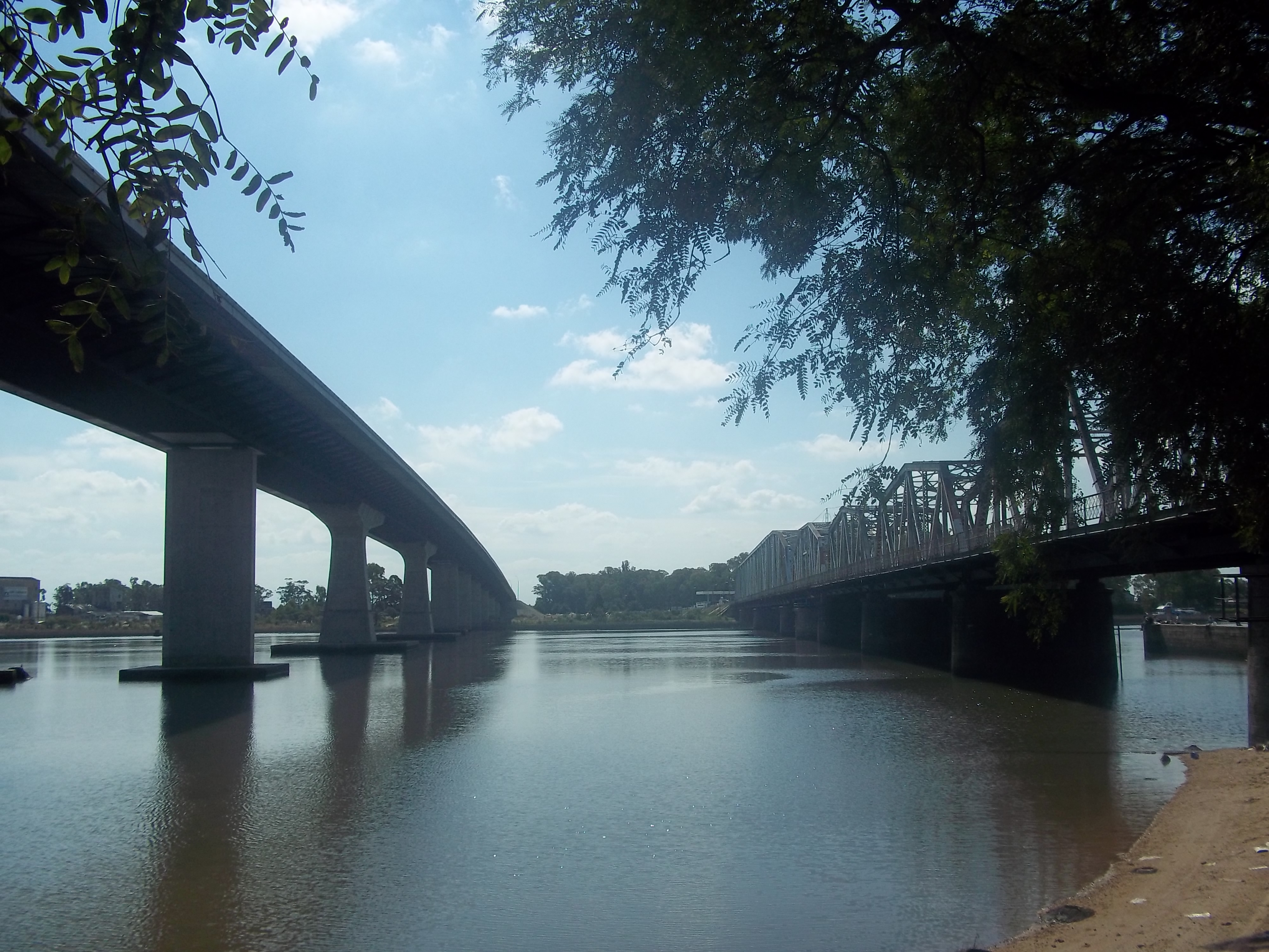 Place between both bridges (new at left; old at right) in Santiago Vázquez, Barra of Santa Lucía, Montevideo, Uruguay.